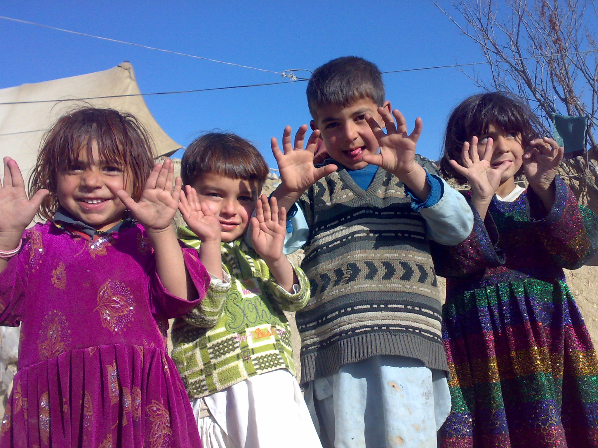 zerok children image